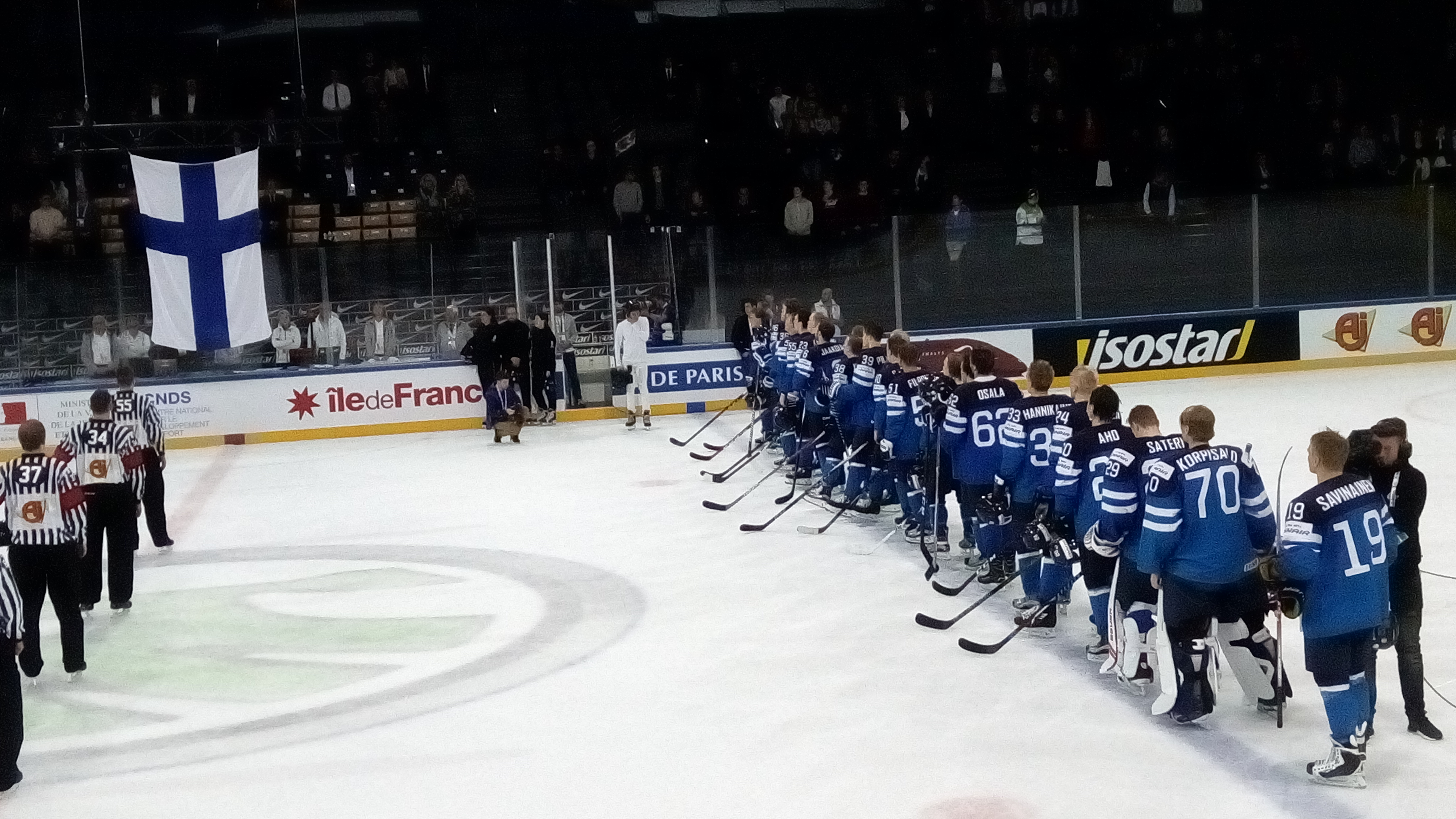 2017 IIHF World Championship. Finland - Slovenia. 10 May 2017. Paris. AccorHotels Arena